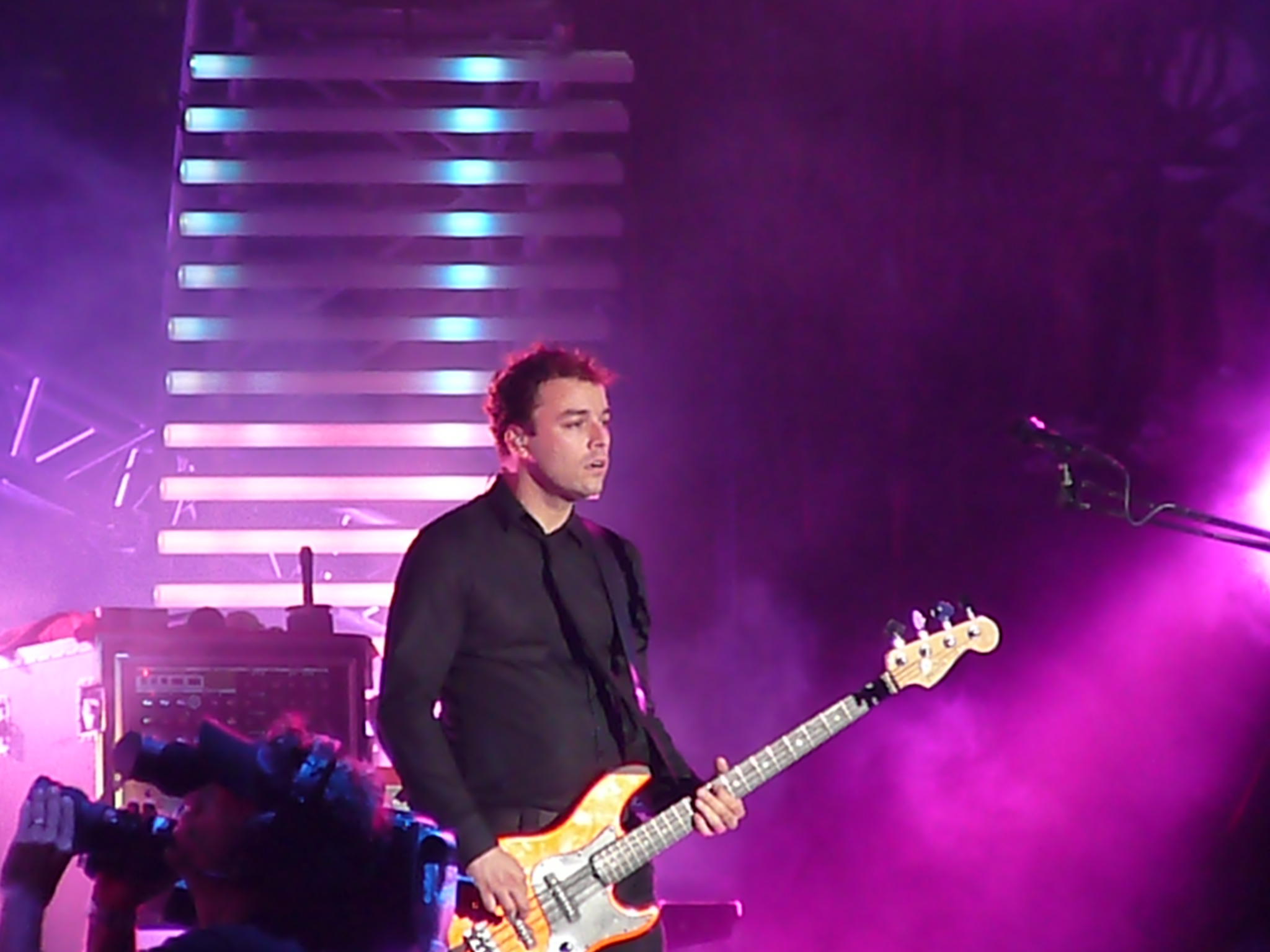 Muse's bassist during Lollapalooza 2007